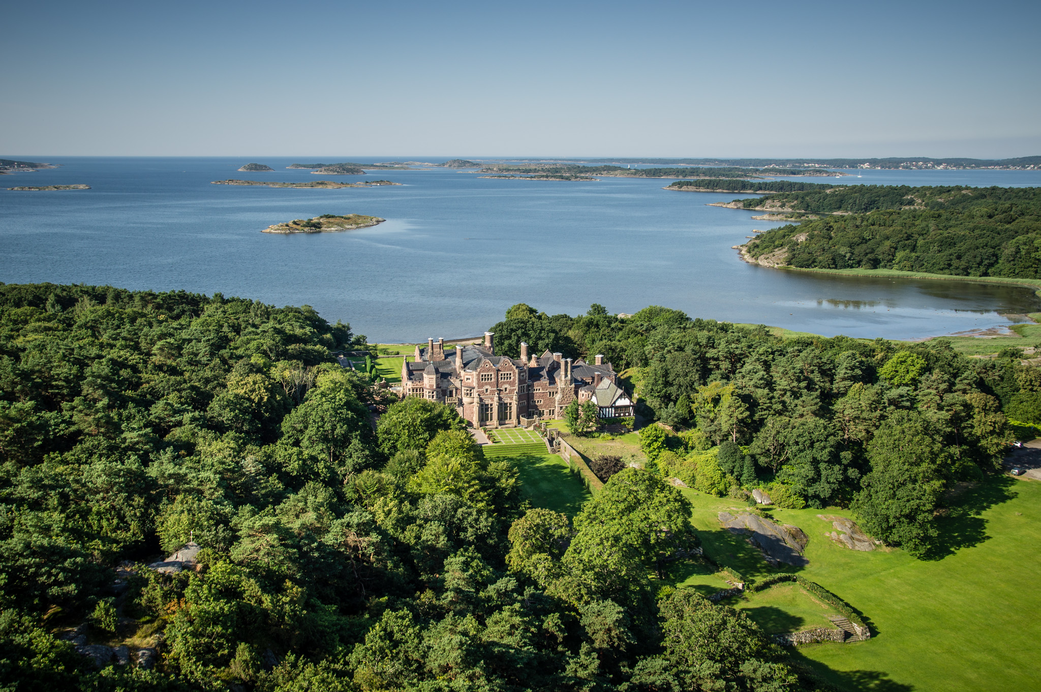 Tjolöholm Castle pictured from above.